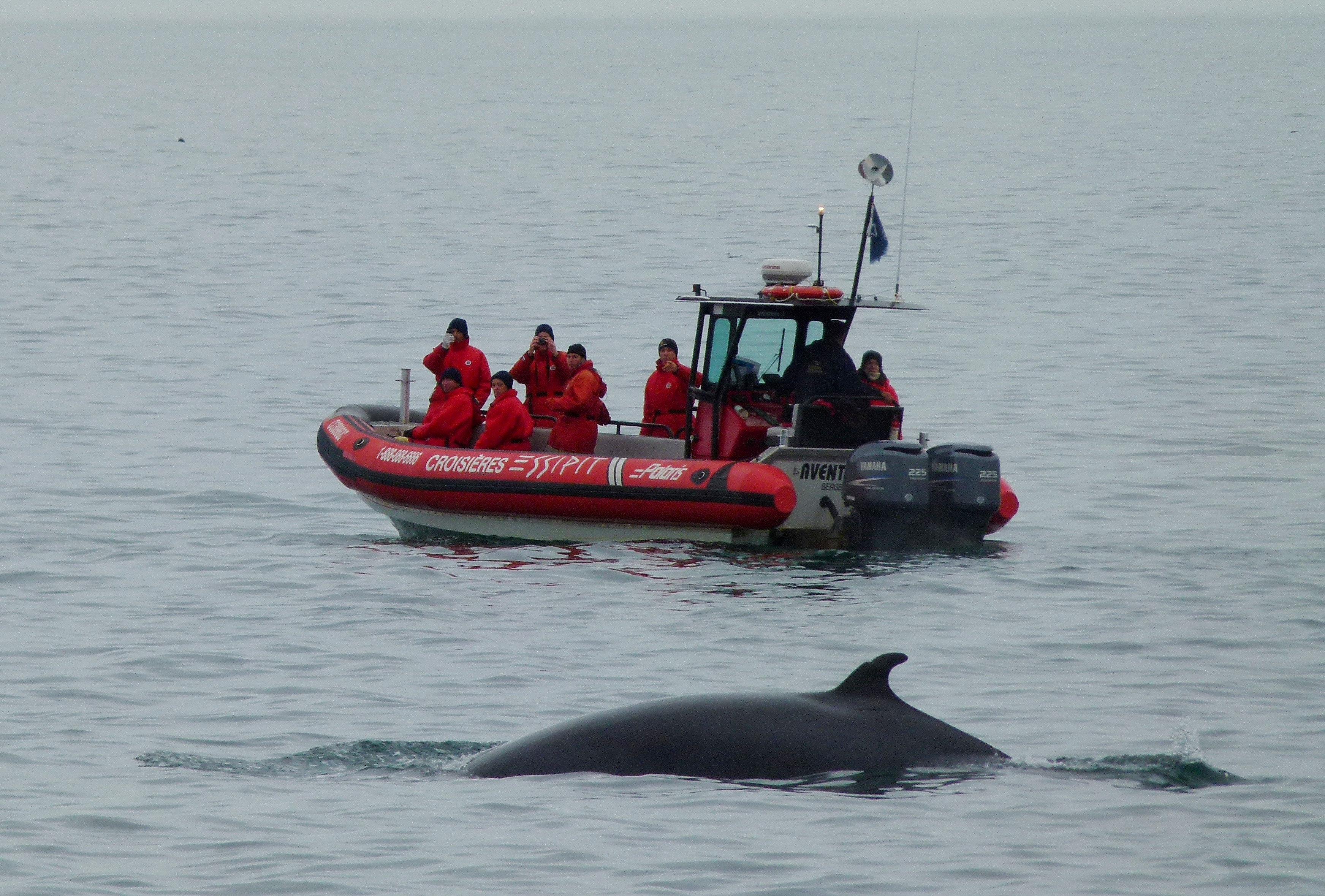 Whale near Tadoussac, Canada